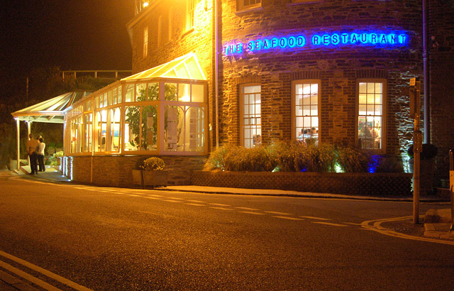 Rick Stein's Seafood Restaurant at night